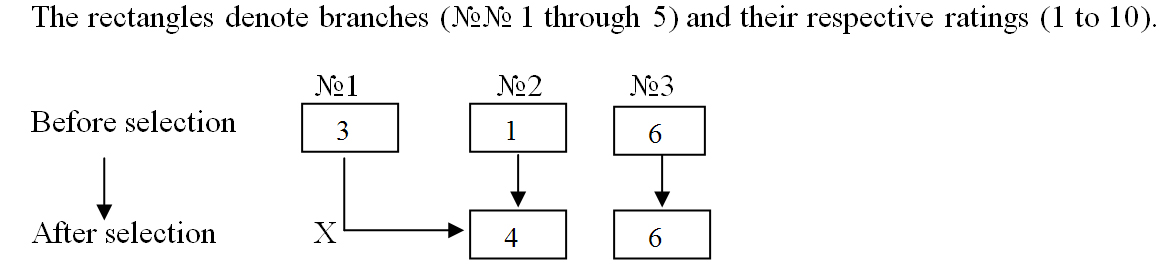 SСHEME 3R. Selection in Business chess